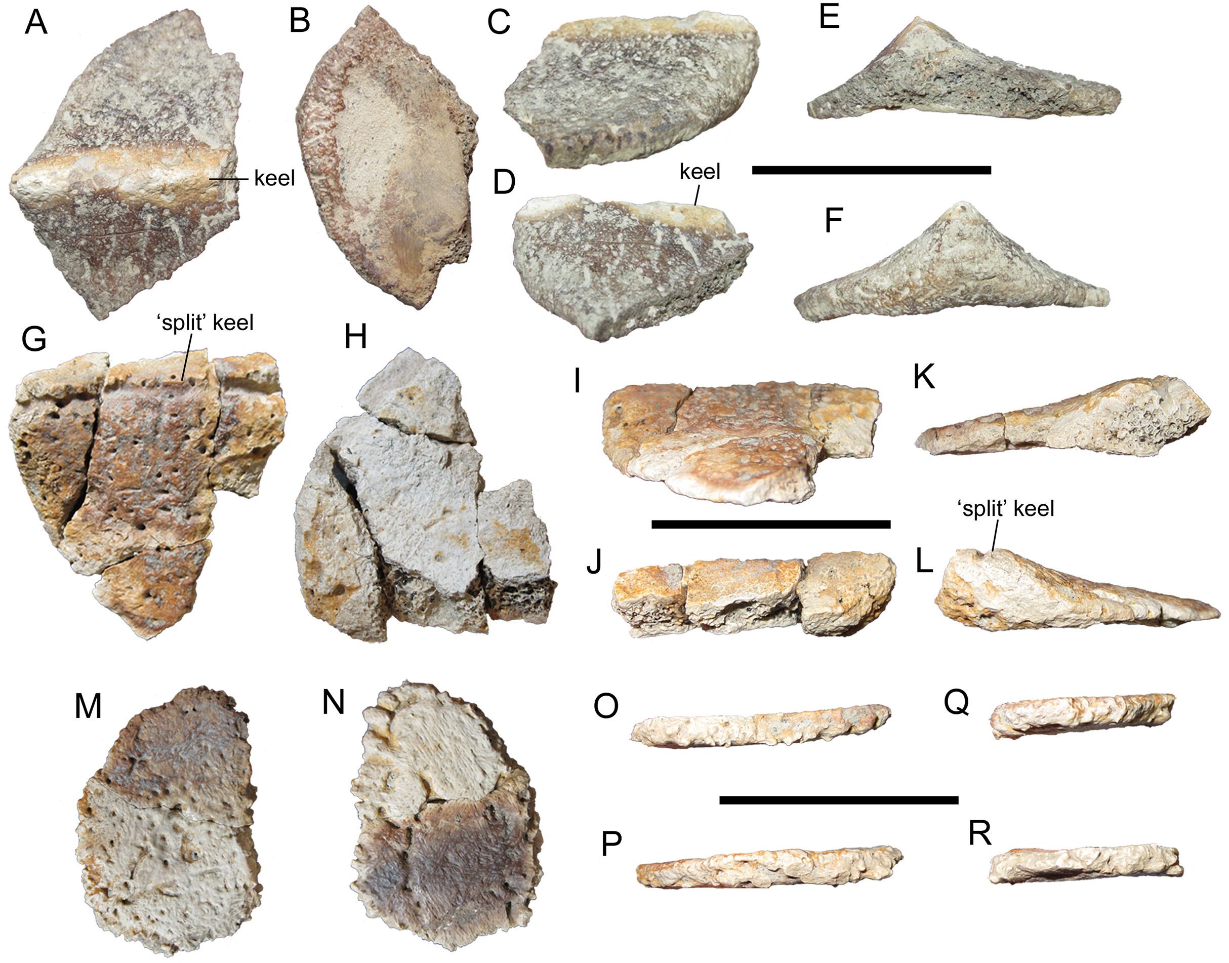 Original figure caption: Thoracic osteoderms of WSC 16505, holotype of I. zephyri. WSC 16505.4, lateral thoracic osteoderm in (A) external, (B) basal, (C) medial, (D) lateral, (E) cranial, and (F) caudal views. WSC 16505.5, thoracic osteoderm in (G) external, (H) basal, (I) medial or lateral (orientation uncertain), (J) medial or lateral (orientation uncertain), (K) cranial, and (L) caudal views. WSC 16505.6, thoracic ossicle in (M) external, (N) basal, and (O–R) marginal views (orientation uncertain). Scale bars equal five cm.